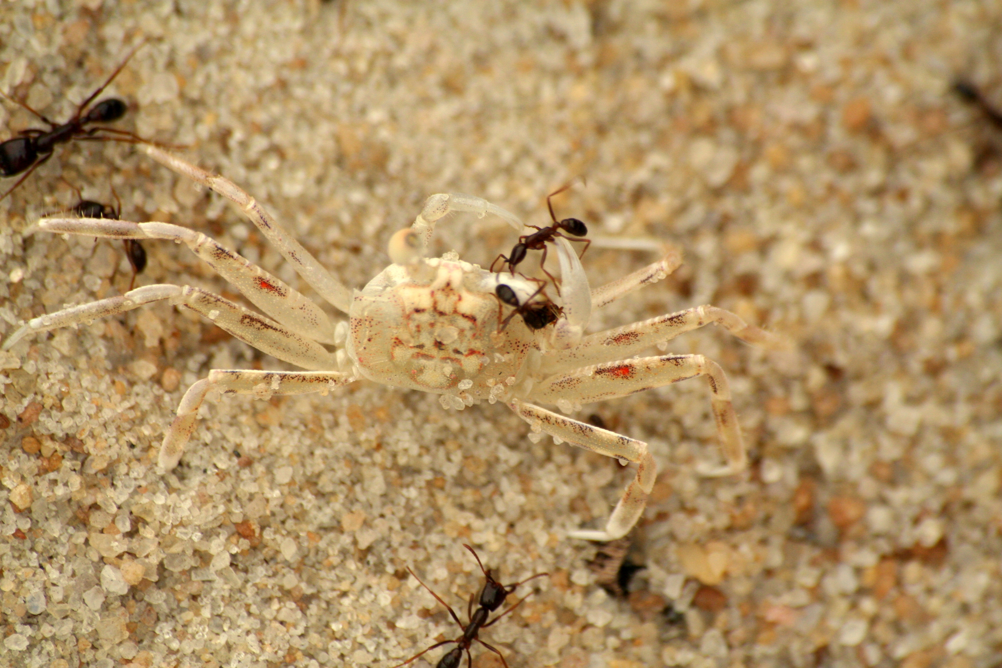 Army ants vs crab.